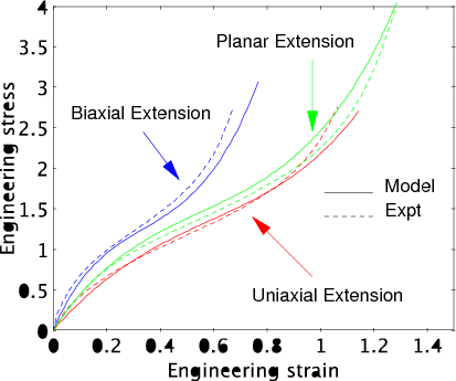 Comaprison of Yeoh model versus experiment for natural rubber. Parameters C1 = 0.634, C2=-0.066, C3=0.021.